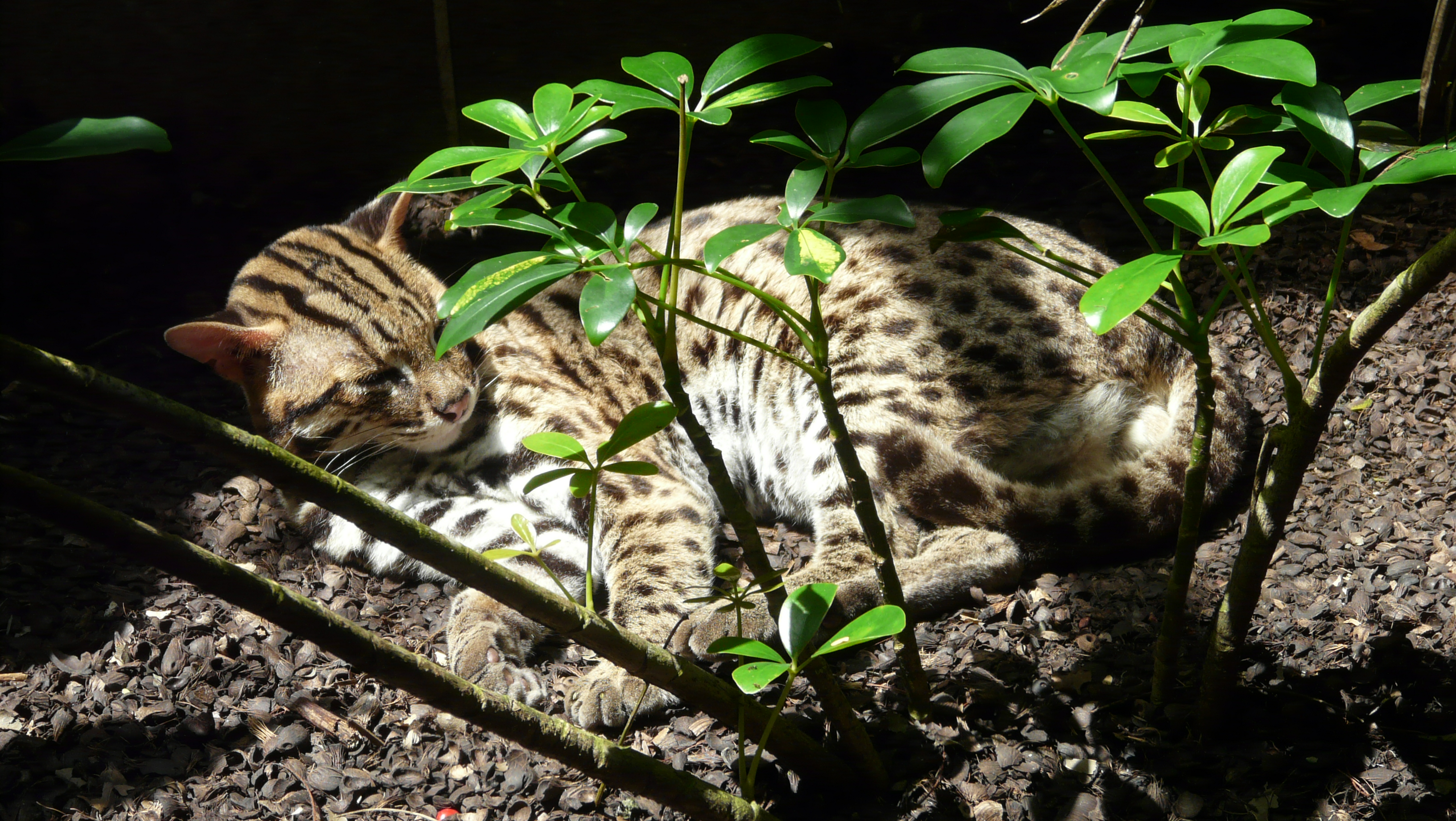 Leopard cat, Singapore Zoo